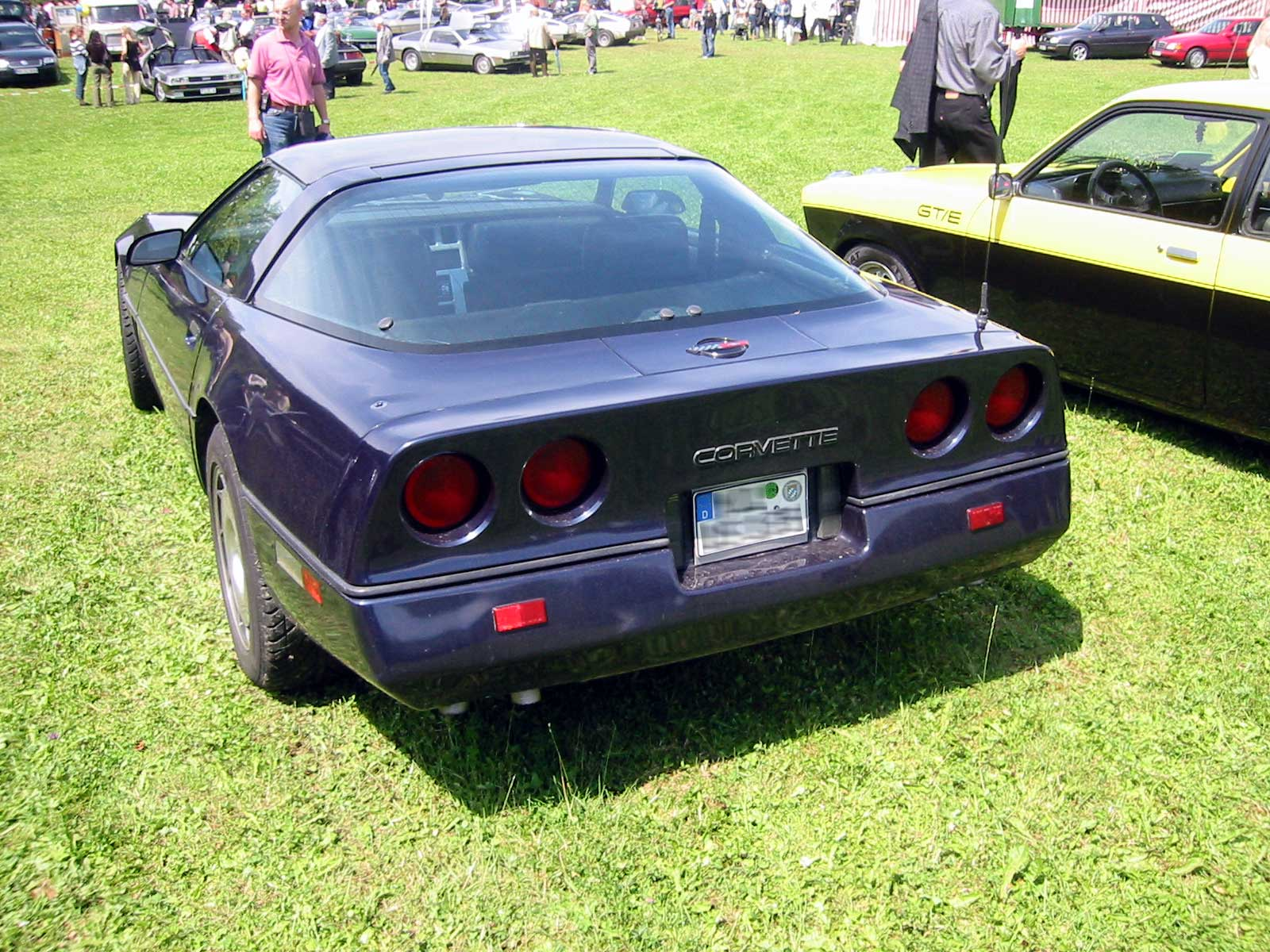 Chevrolet Corvette C4